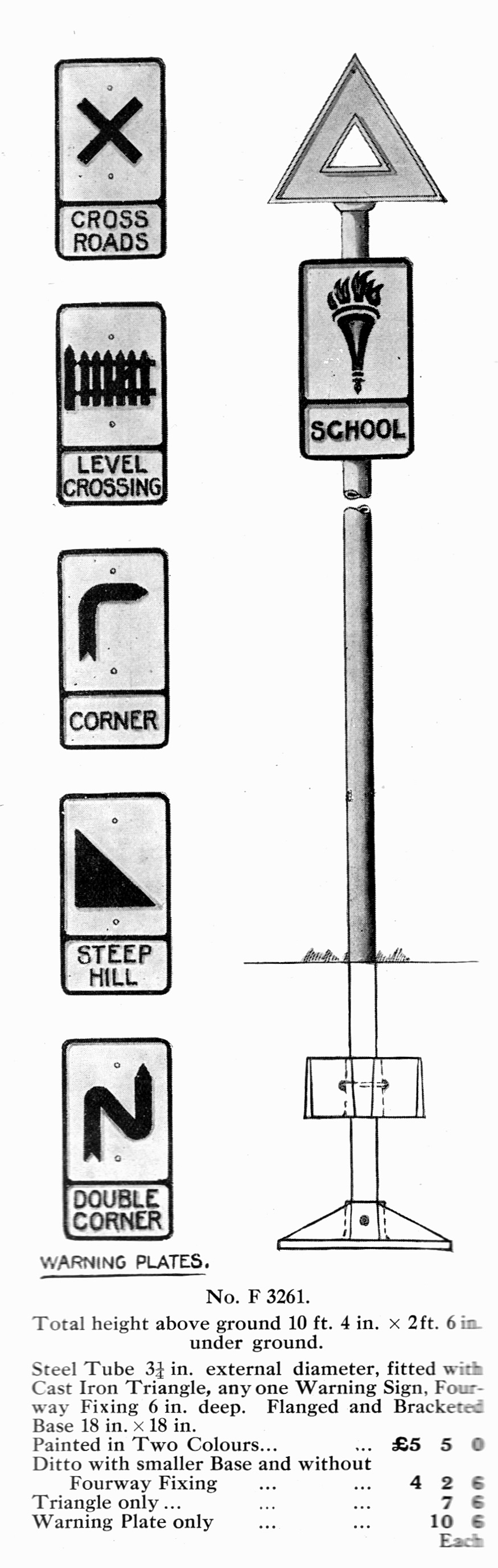 From 1930 General Catalogue No. 330. Pryke & Palmer Ltd., Upper Thames St., London E.C.4.